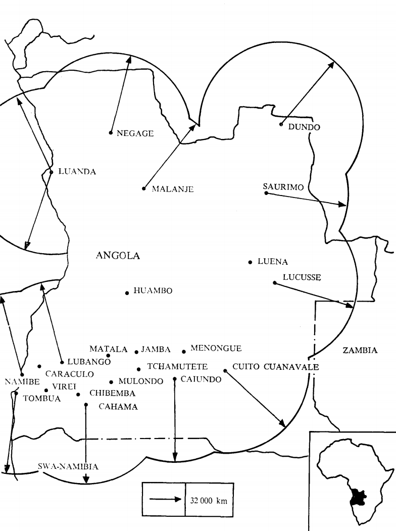 Soviet-supplied air defence systems in Angola.